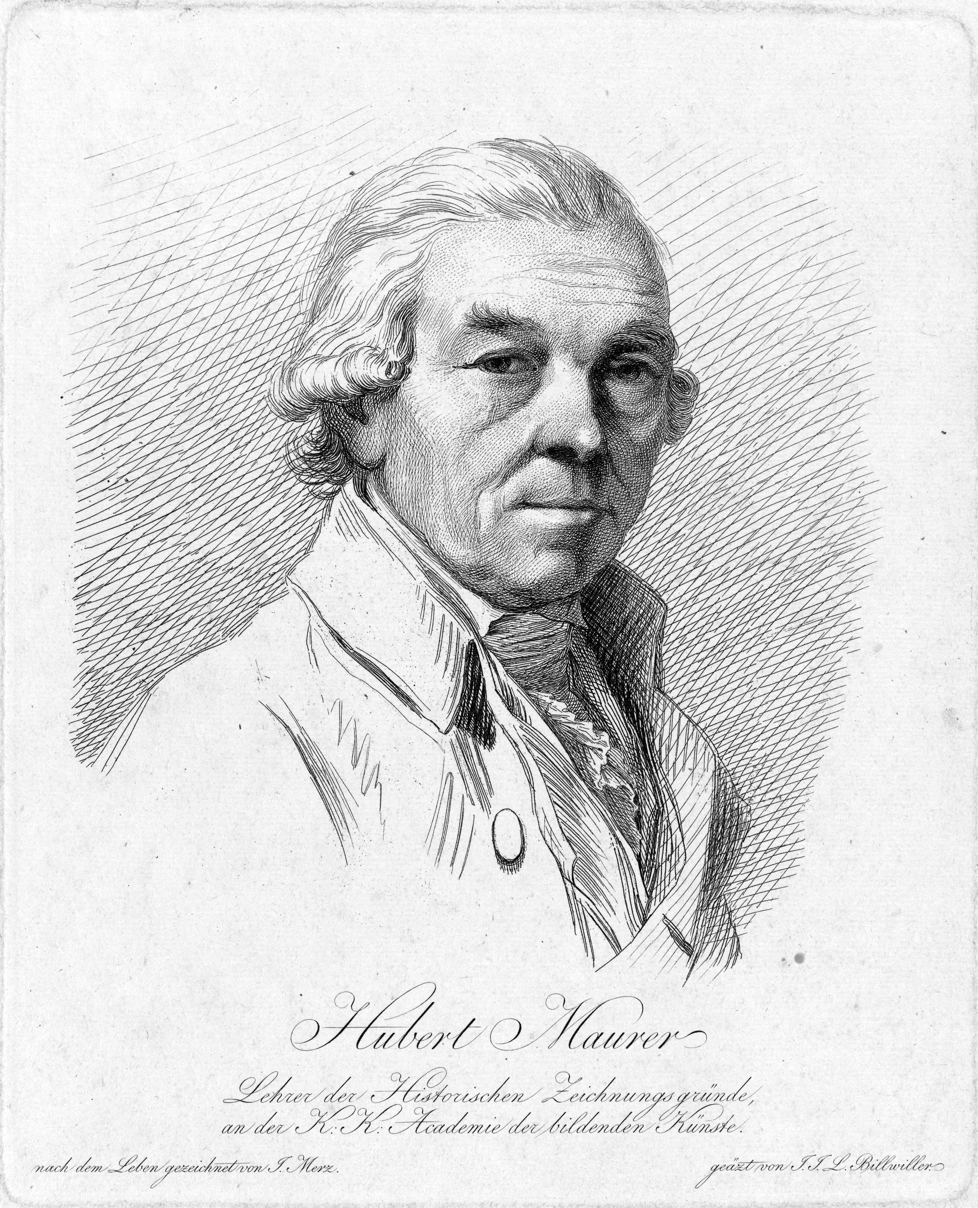 Depicted person: Hubert Maurer